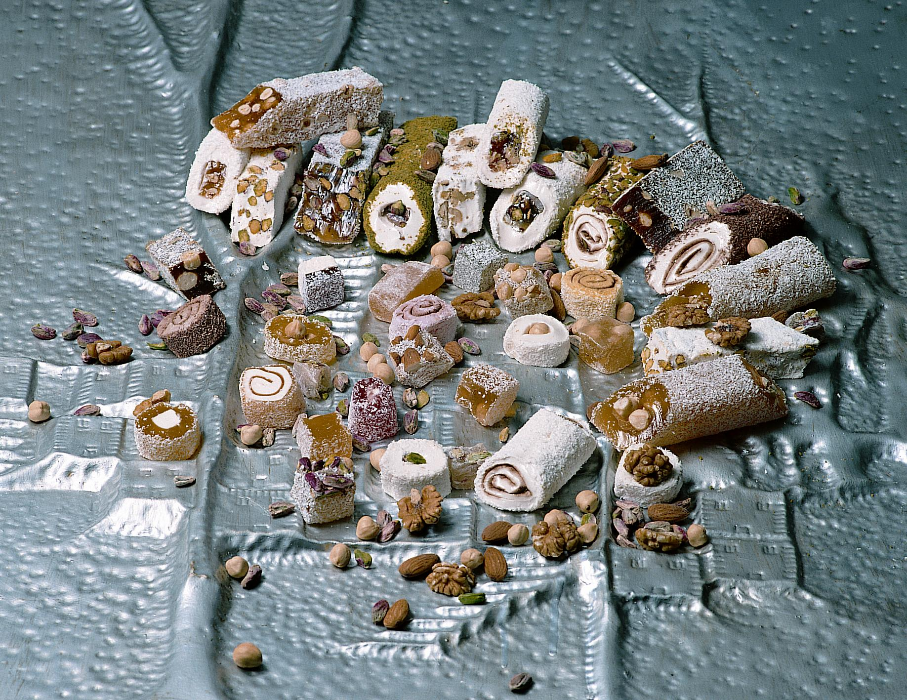 Türk Lokumu